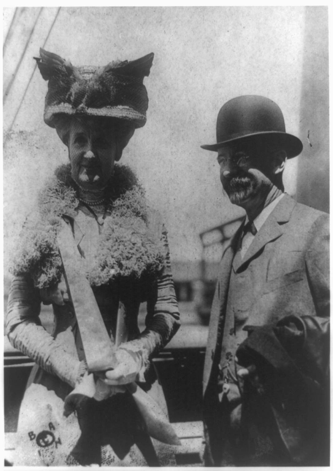 Title: Edward Henry Harriman, railroad magnate, and wife, three-quarter-length portrait taken outdoors Abstract/medium: 1 photographic print.